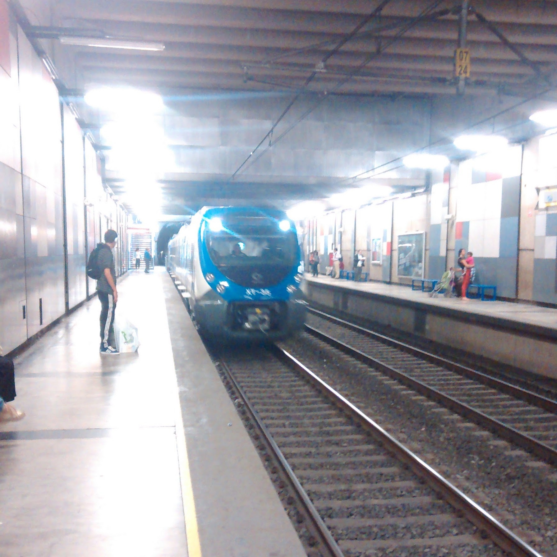 A new Xtrapolis Train entering Miramar Station, Metro Valparaíso